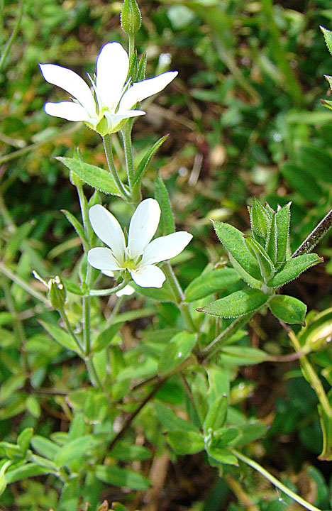 A mountain species found from the southern U.S. to Peru. Photo from near summit of Volcan Baru, Panama. In context at